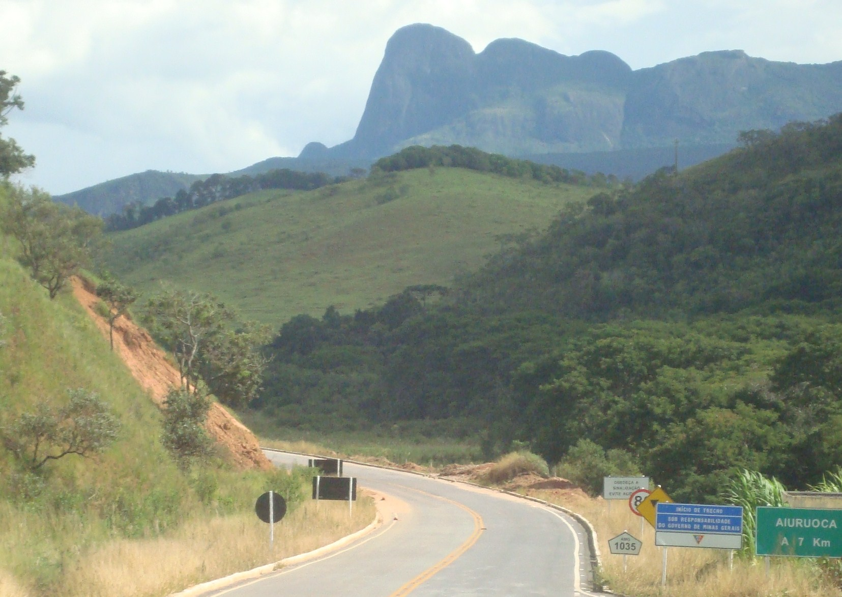 Road AMG-1035 in Aiuruoca, Minas Gerais, Brazil